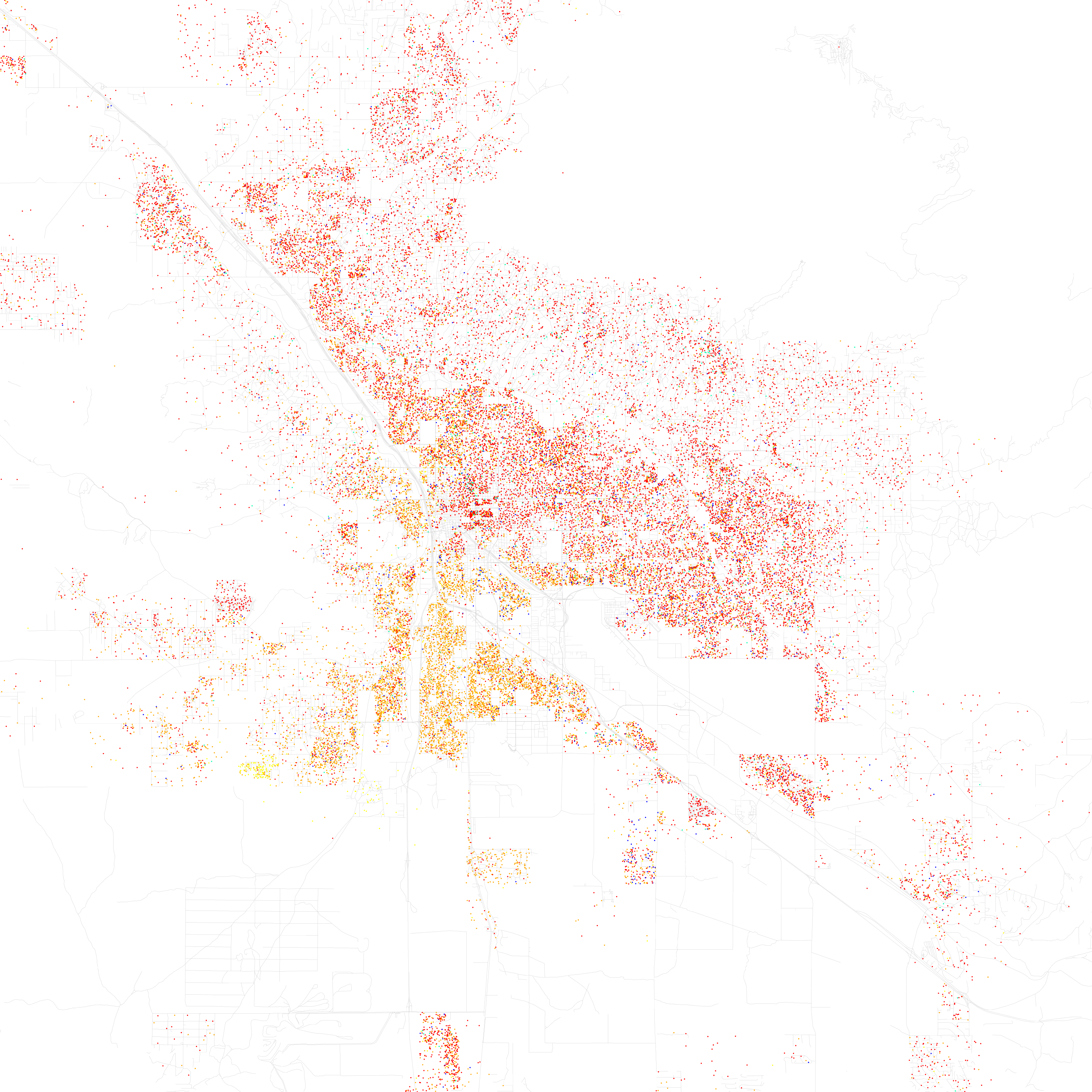 Maps of racial and ethnic divisions in US cities, inspired by Bill Rankin's map of Chicago, updated for Census 2010. Red is White, Blue is Black, Green is Asian, Orange is Hispanic, Yellow is Other, and each dot is 25 residents. Data from Census 2010. Base map © OpenStreetMap, CC-BY-SA